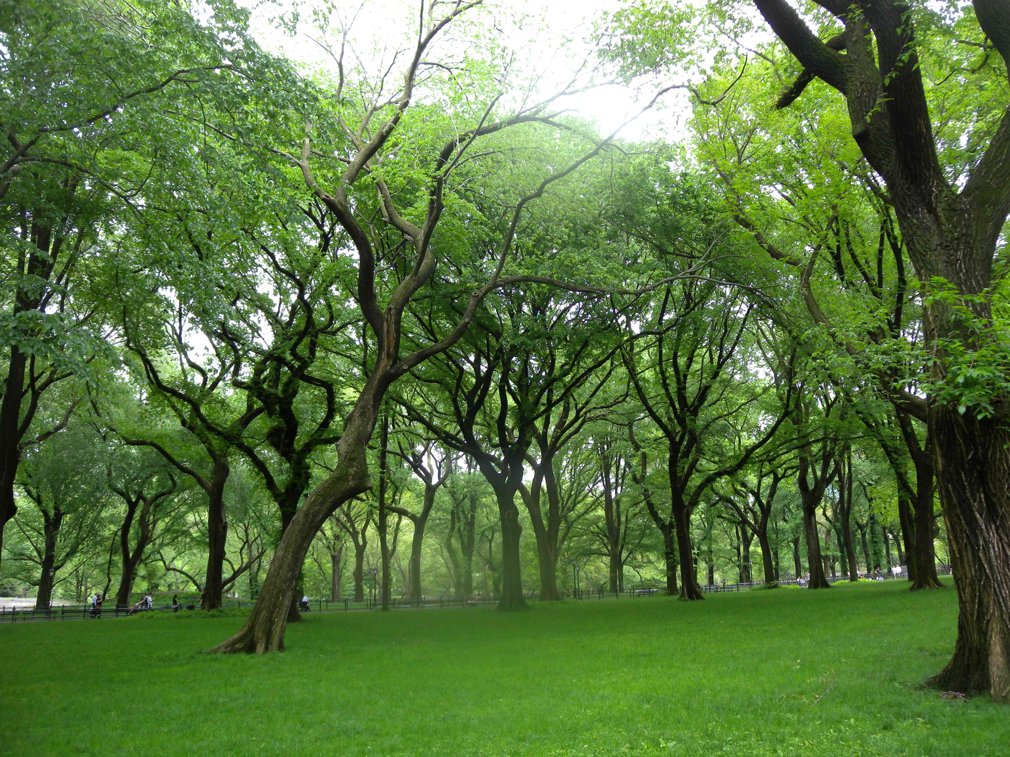 Looking north along the west side of the Mall at the elms on a cloudy spring day.